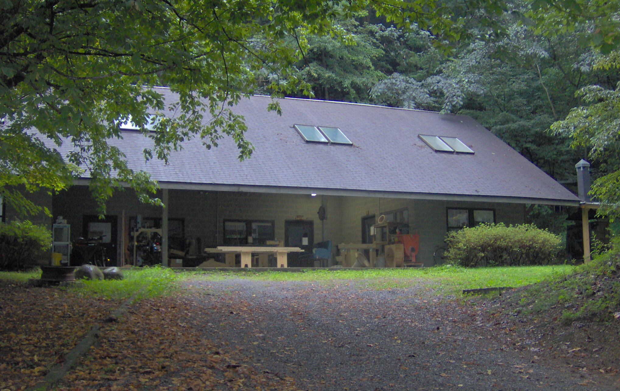 A workshop on the Arrowmont School of Arts and Crafts campus in the U.S. city of Gatlinburg, Tennessee.